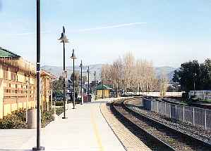 The Amtrak platform at Fremont-Centerville, looking east.